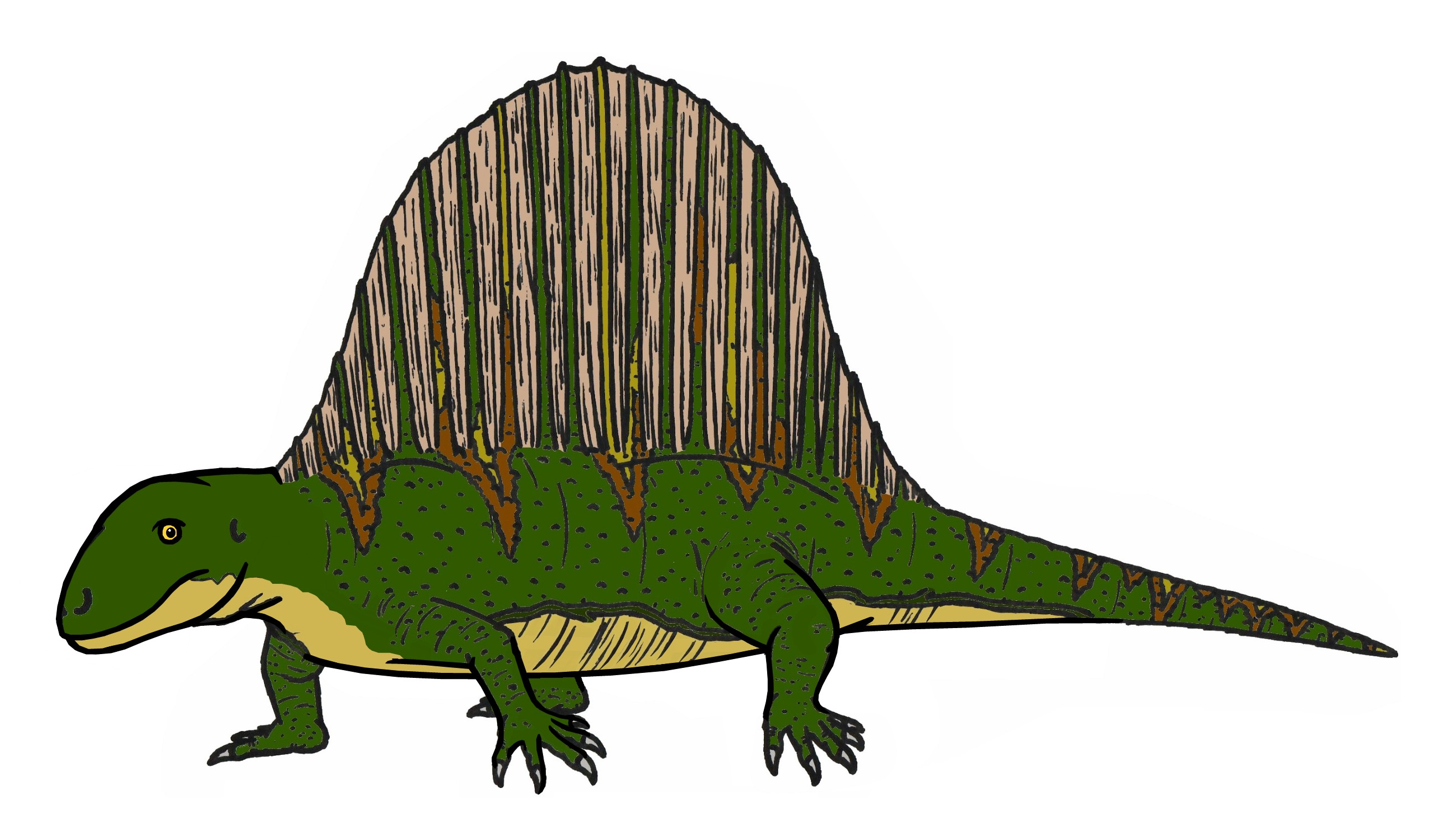 Dimetrodon lived in America about 260 million years ago. It was a Pelycosaur.